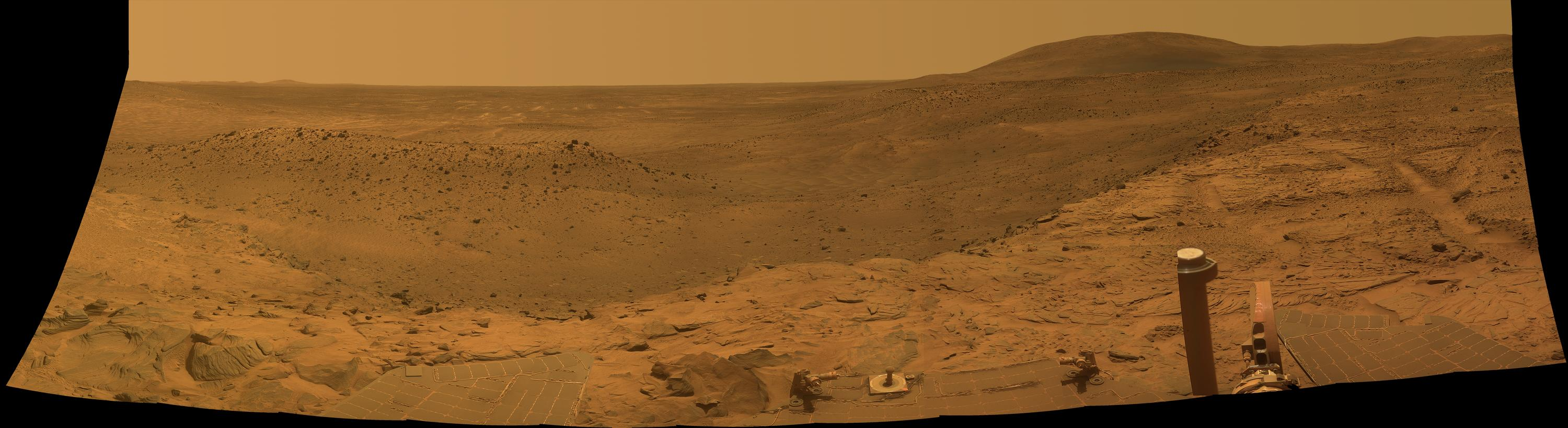 NASA'S Mars Exploration Rover Spirit captured this westward view from atop a low plateau where Sprit spent the closing months of 2007.